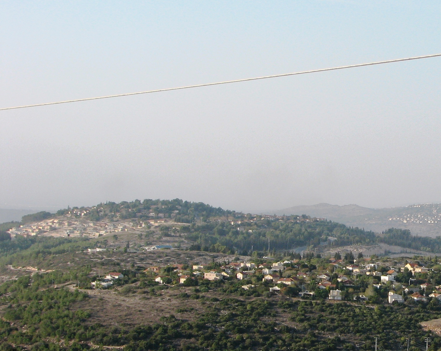 Atzmon in Gush Segev in the Galilee